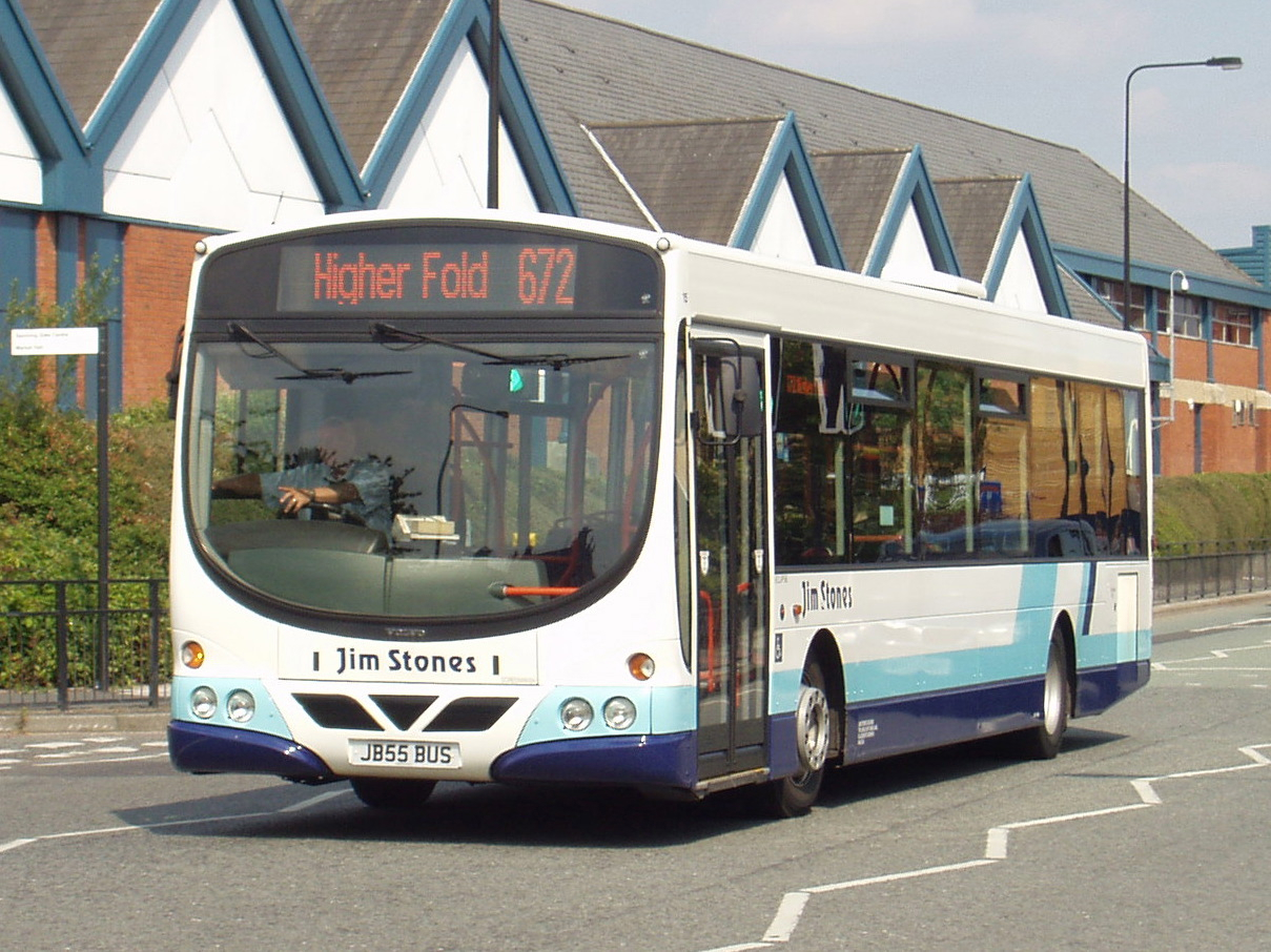 Jim Stones Coaches Volvo / Wright Eclipse JB55 BUS waiting to turn into Leigh Bus Station